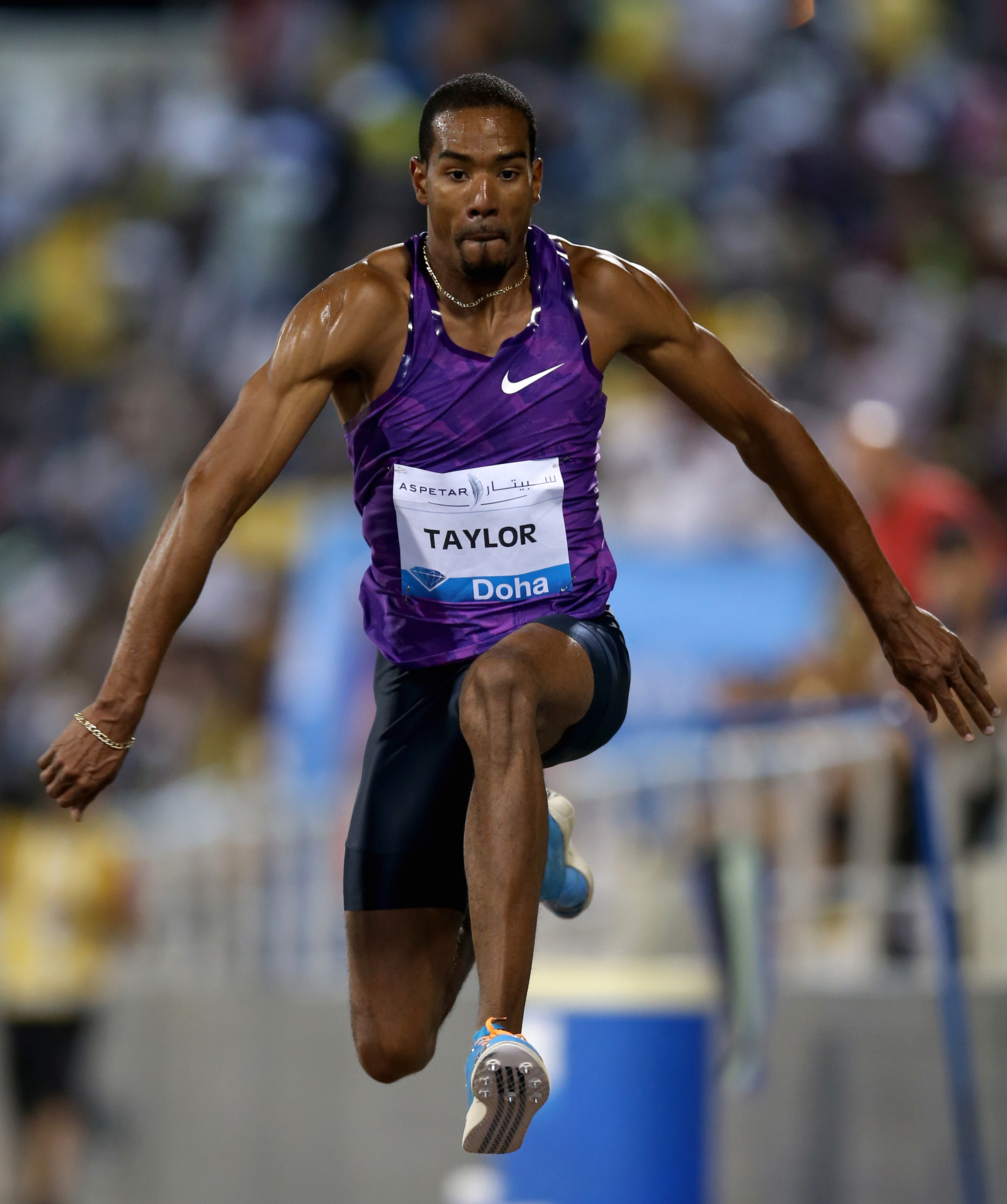 American triple jumper Christian Taylor competes during the Doha Diamond League meeting.